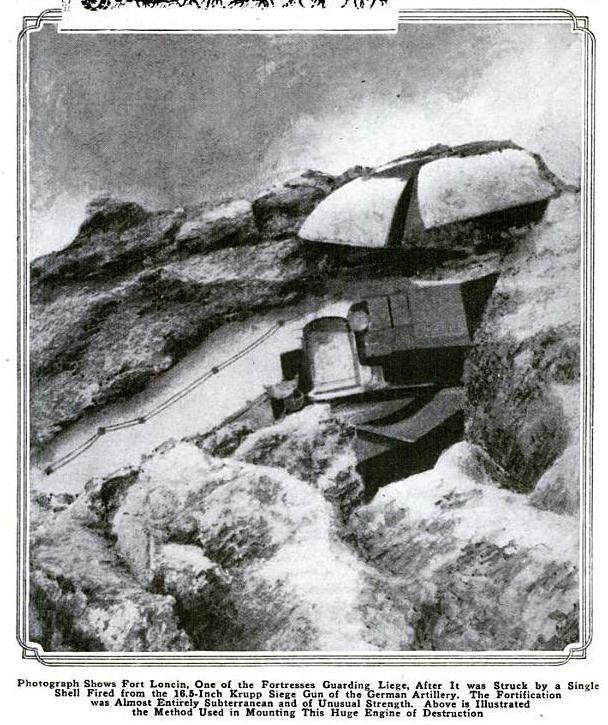 Photograph of the destroyed fortification at Leige after it was struck by a shell from the Krupp siege gun.